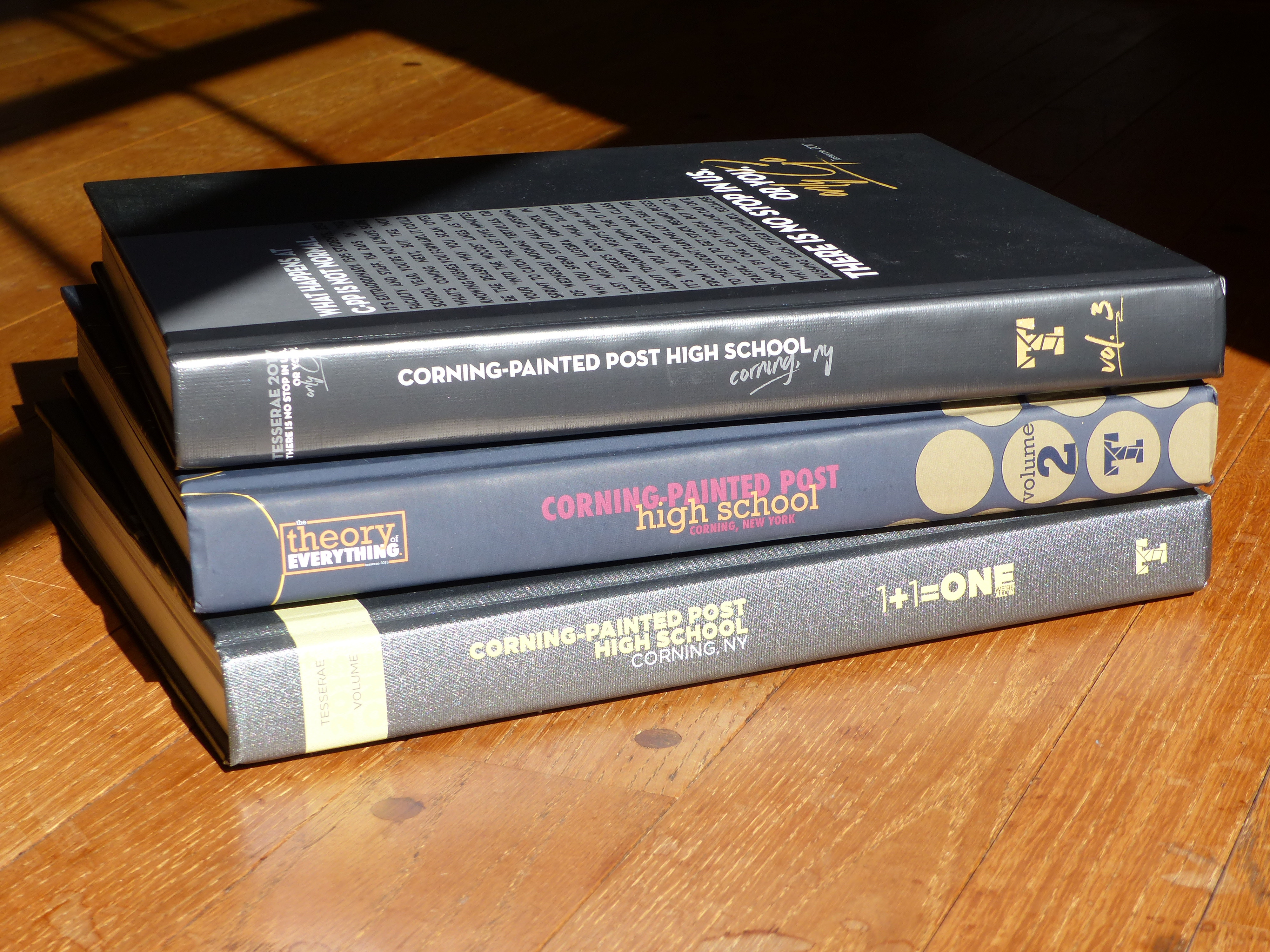 three volumes of the Tesserae yearbook